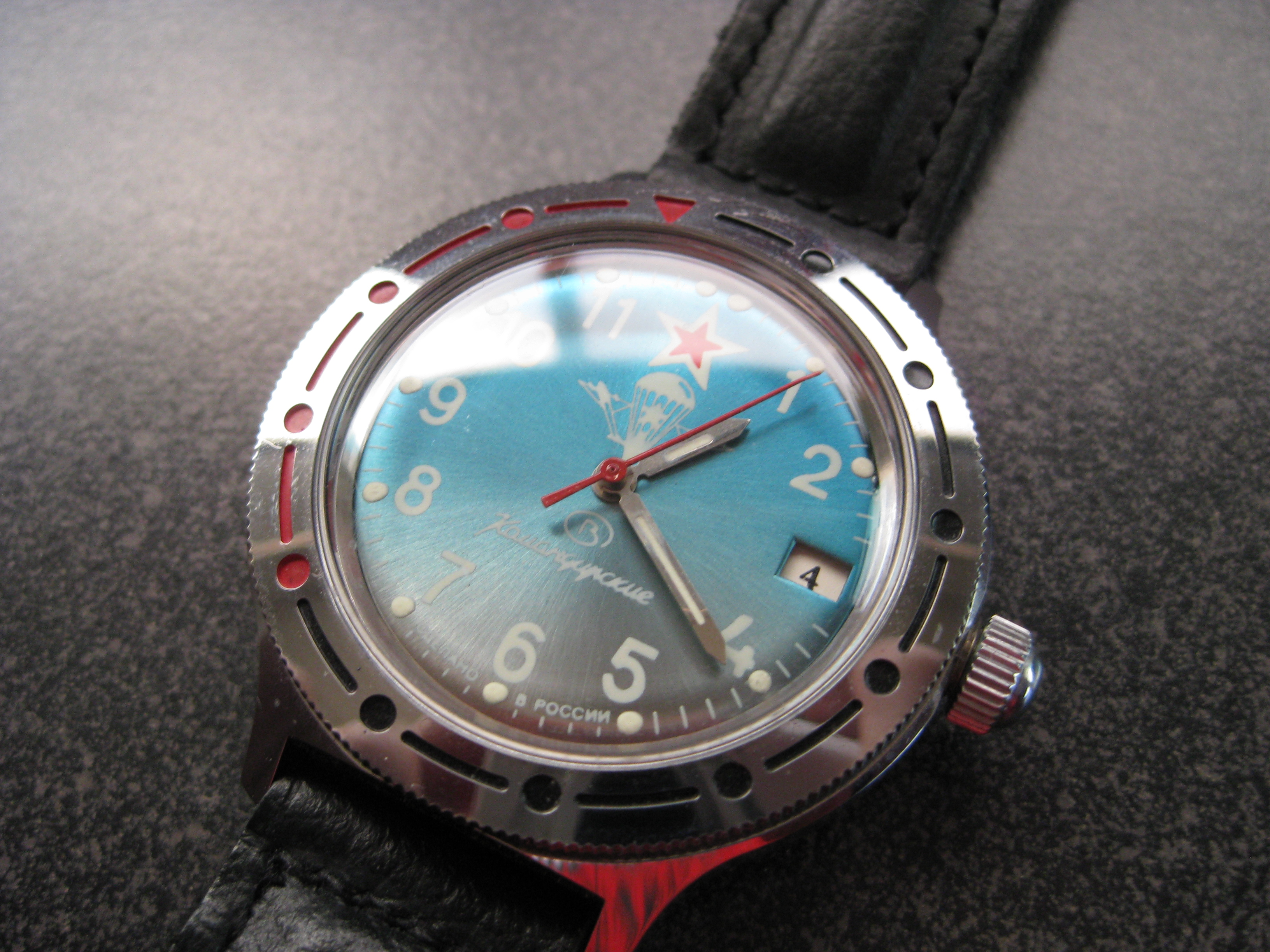 Vostok Military watch